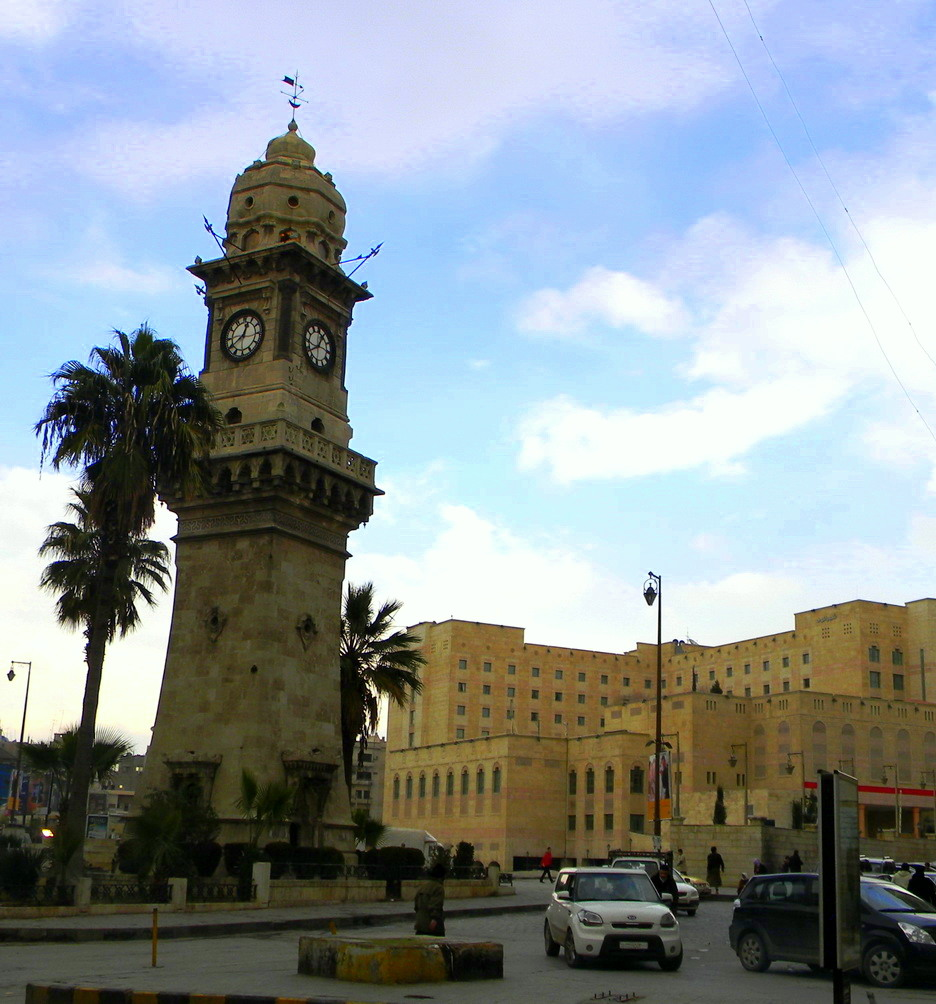 Bab al-Faraj tower and Sheraton hotel, Aleppo